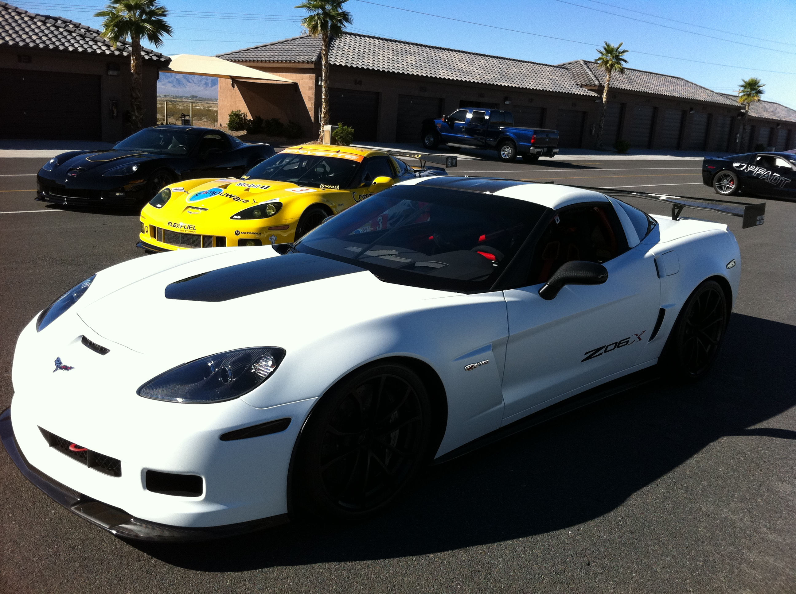 Chevrolet Corvette Z06X. This concept car was designed as a factory built road race car.